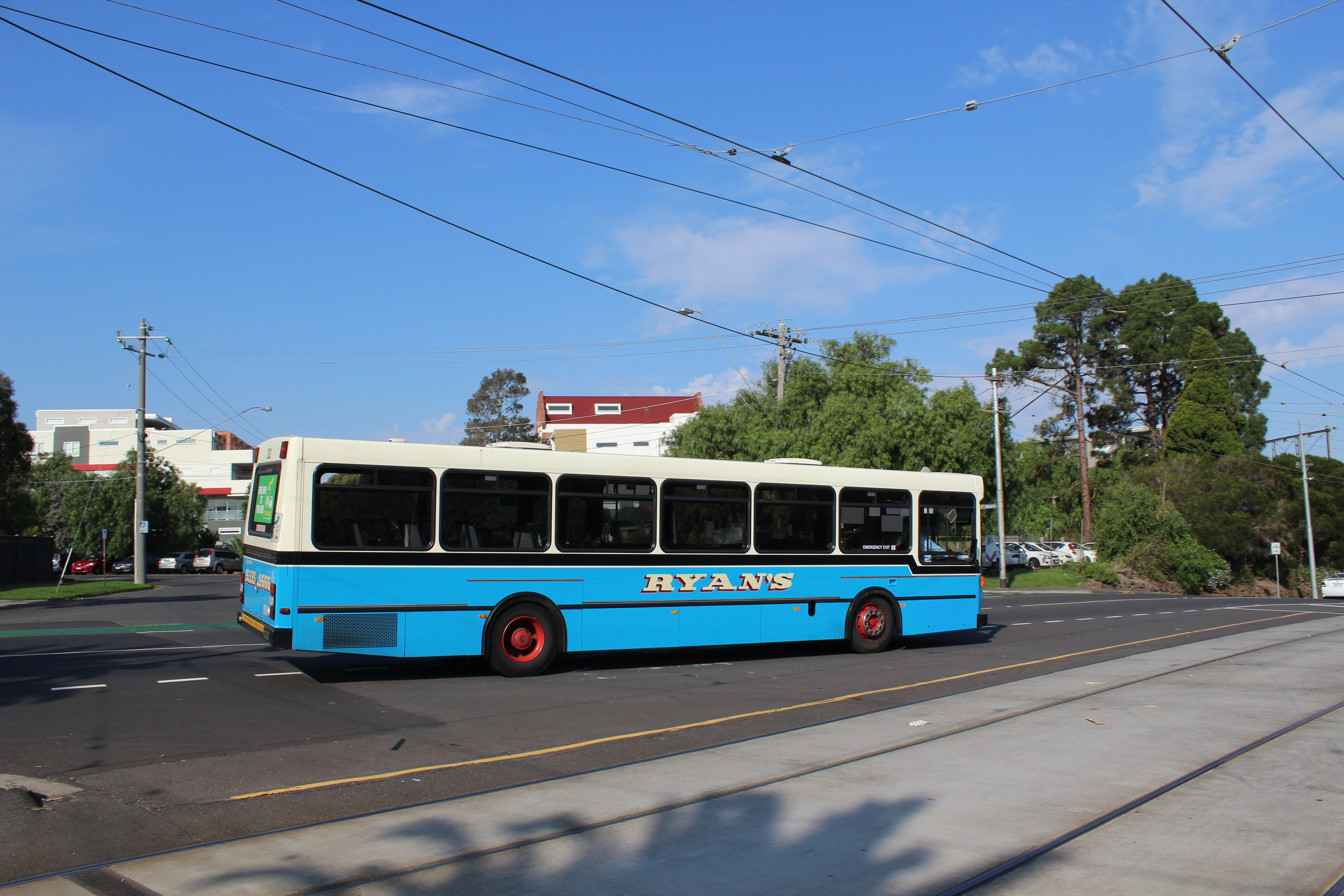 Ryan's bus in Mount Alexander Road, 2013.